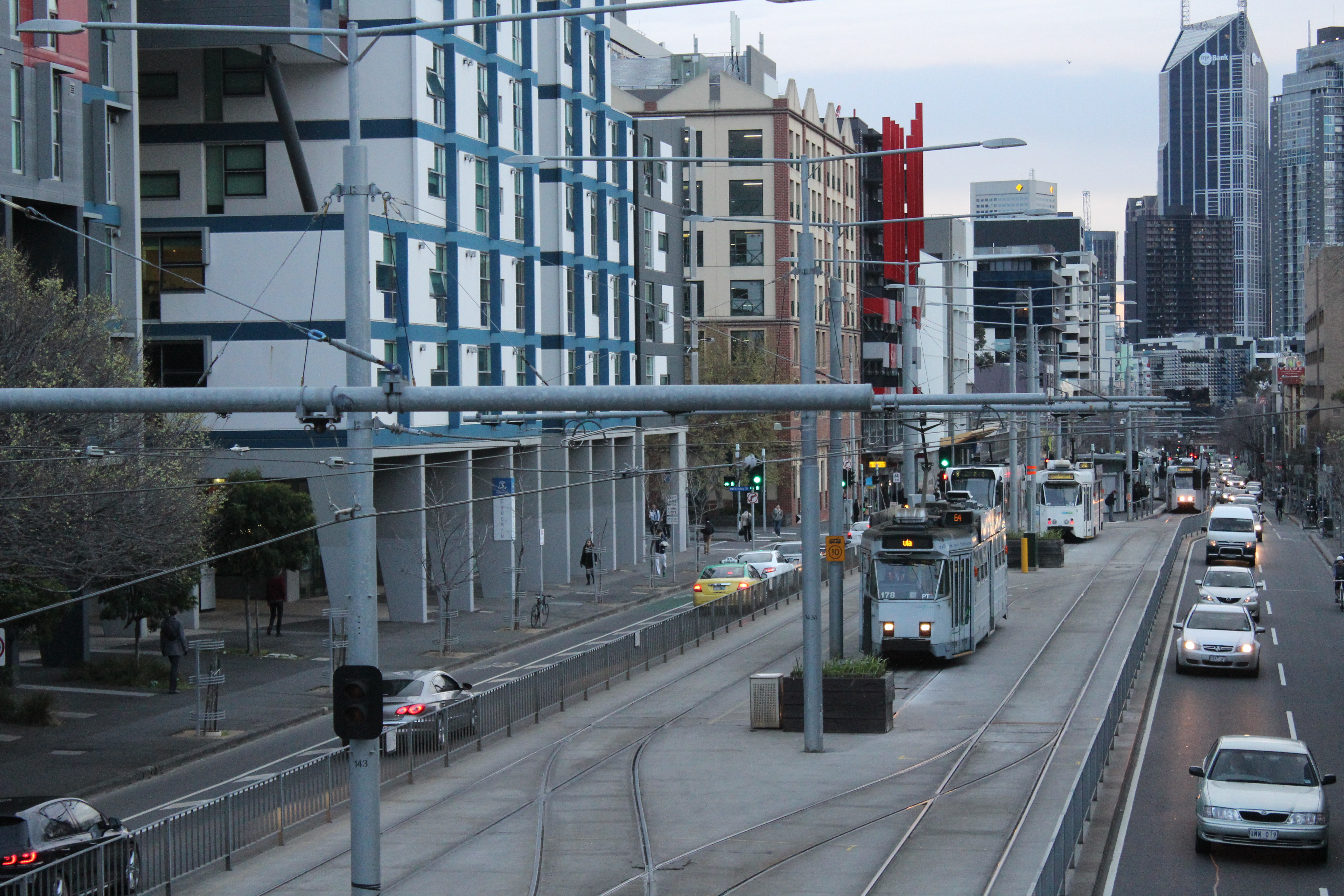 Melbourne University tram stop shunting area, looking south, 2013